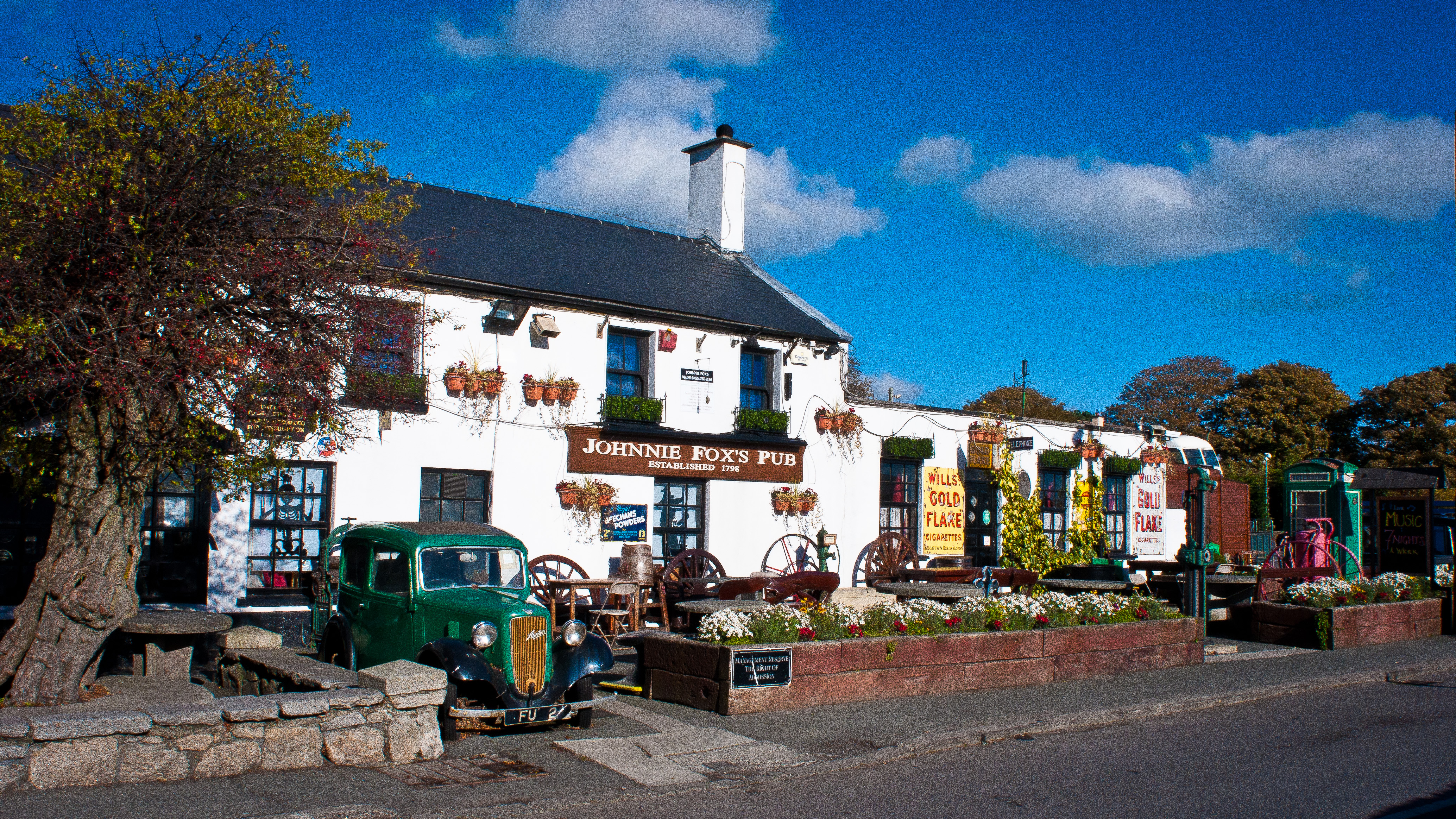 Johnnie Fox's Pub, Glencullen, County Dublin, Ireland